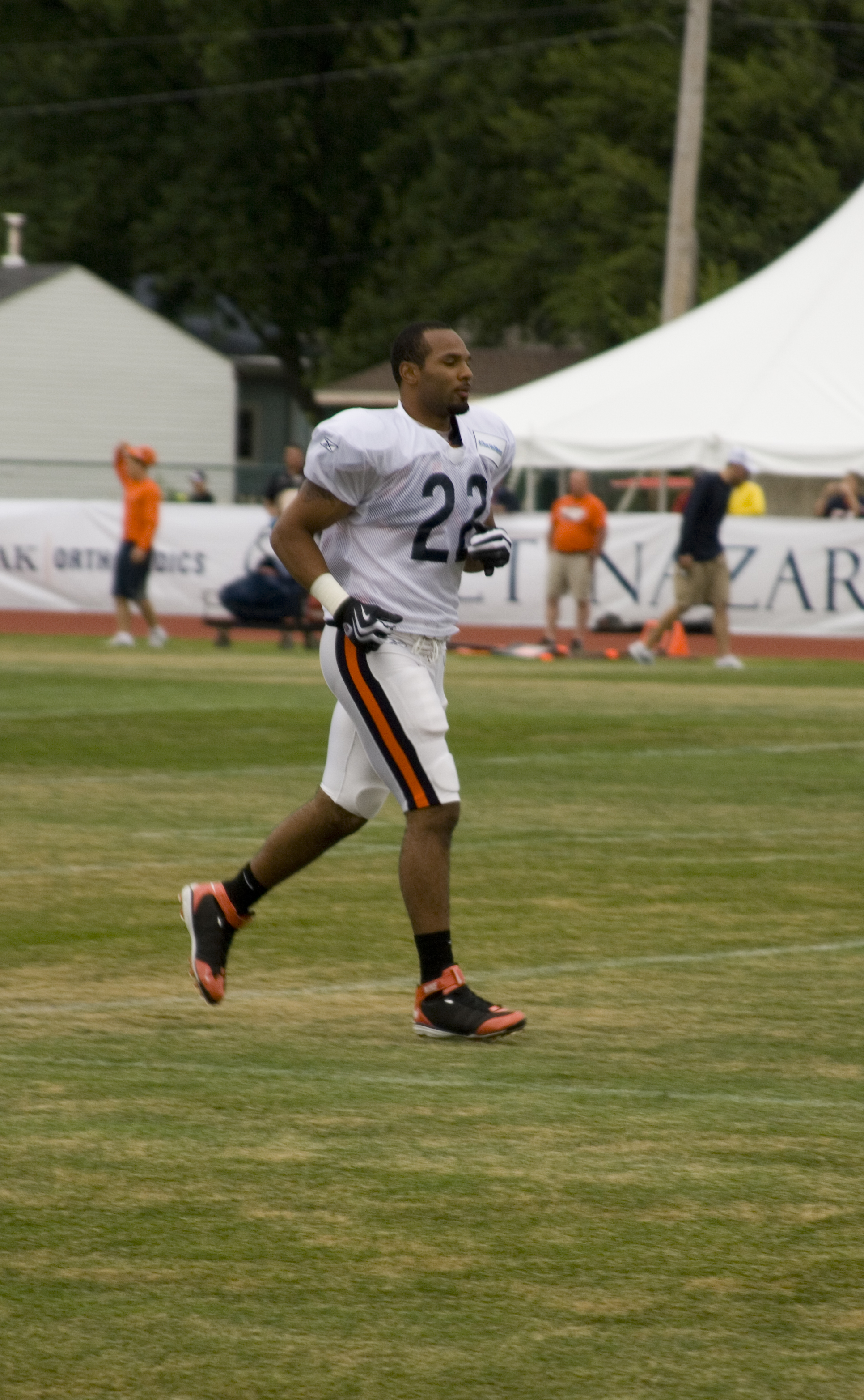 Matt Forté warms up at camp 2009